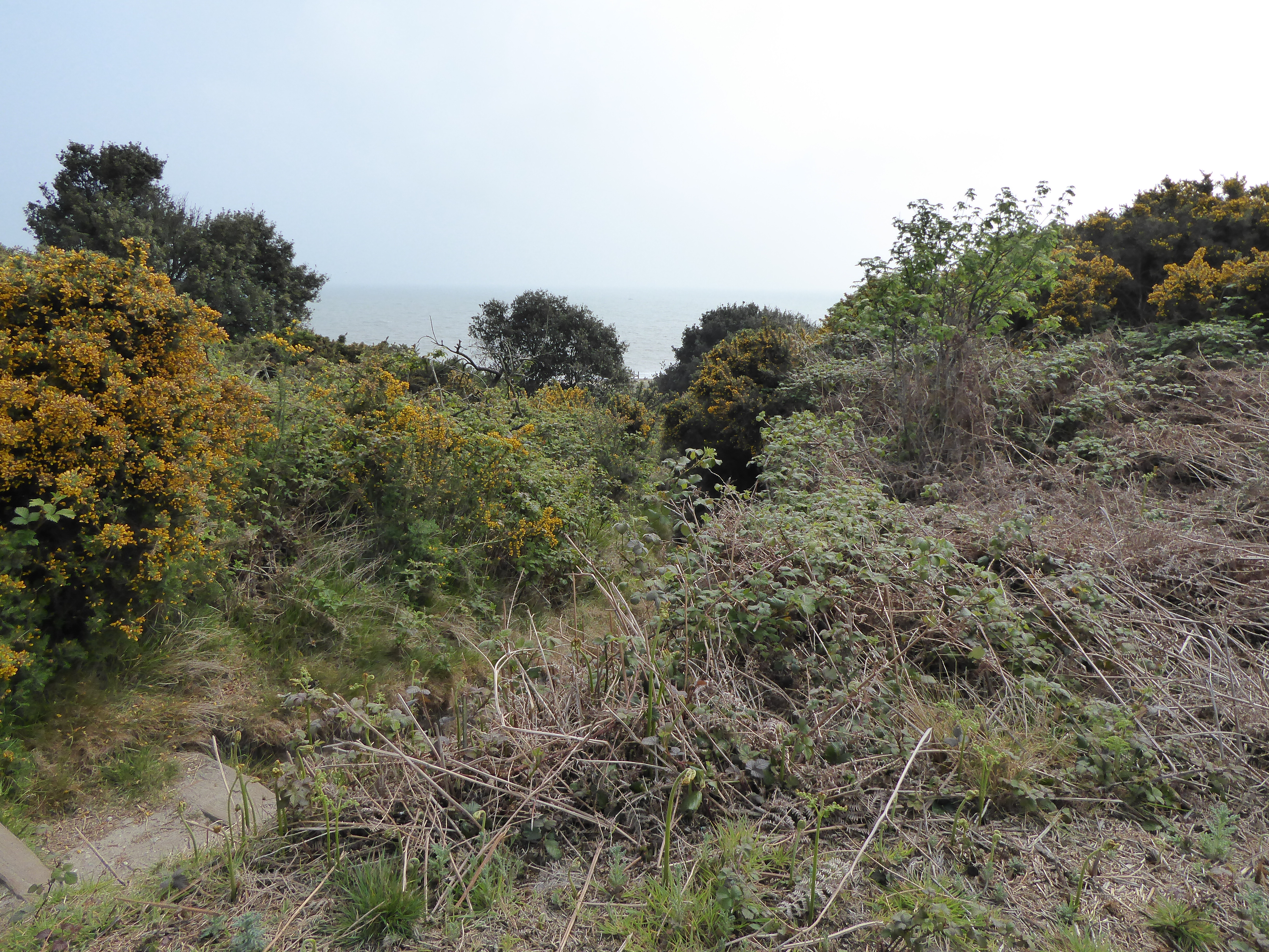 Gunton Warren is a nature reserve in Lowestoft in Suffolk. It is managed by the Suffolk Wildlife Trust, and is part of the Gunton Warren and Corton Woods Local Nature Reserve.